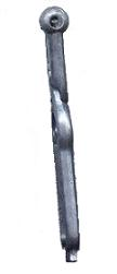 Hand tool for removing pits from fruits; uploader specifies use for olives